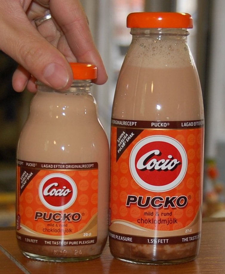 chockolate drink "pucko"